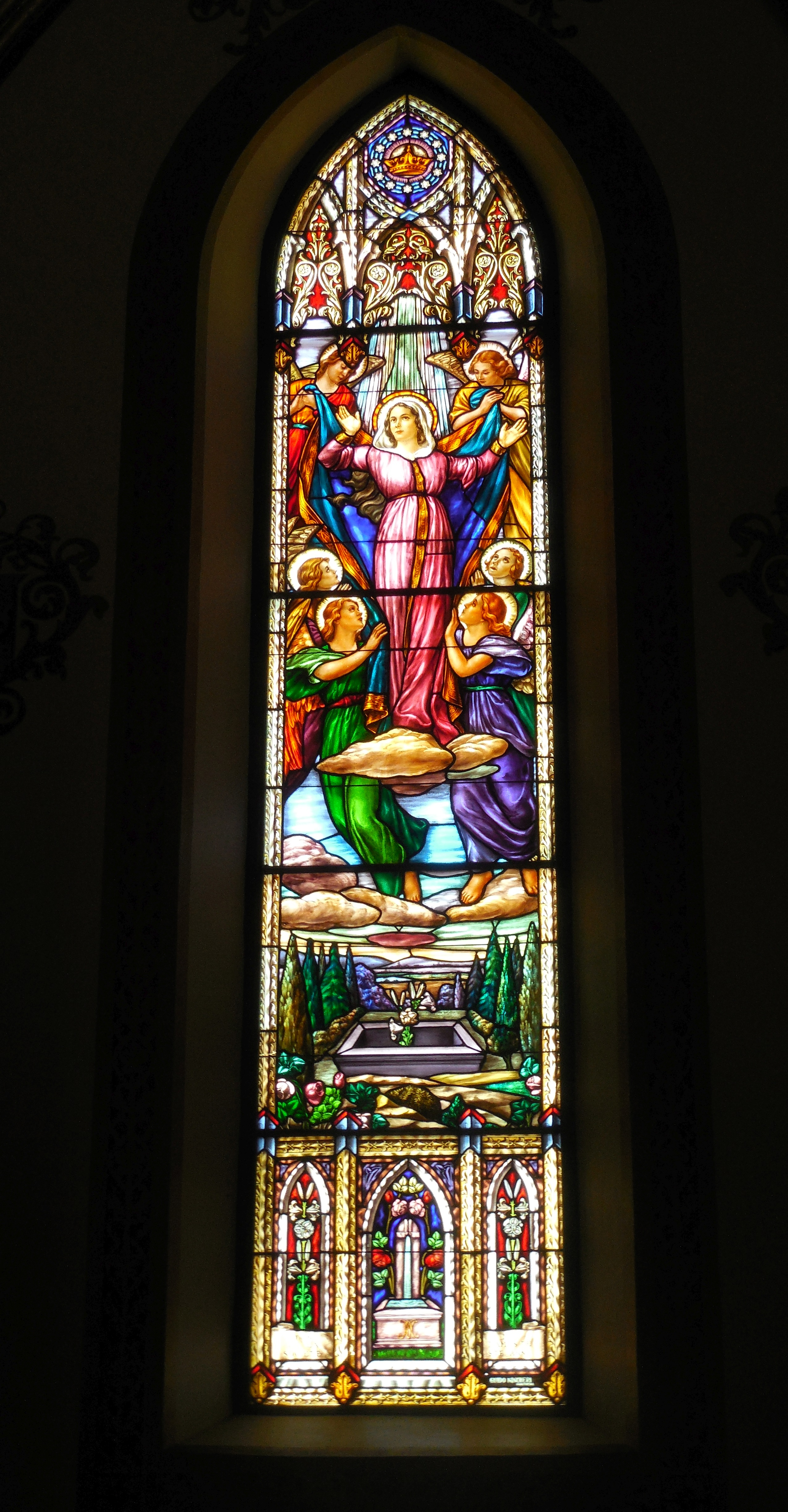 Stained glass window within St. Francis Xavier Church in Winooski, Vermont, created by artist Guido Nincheri